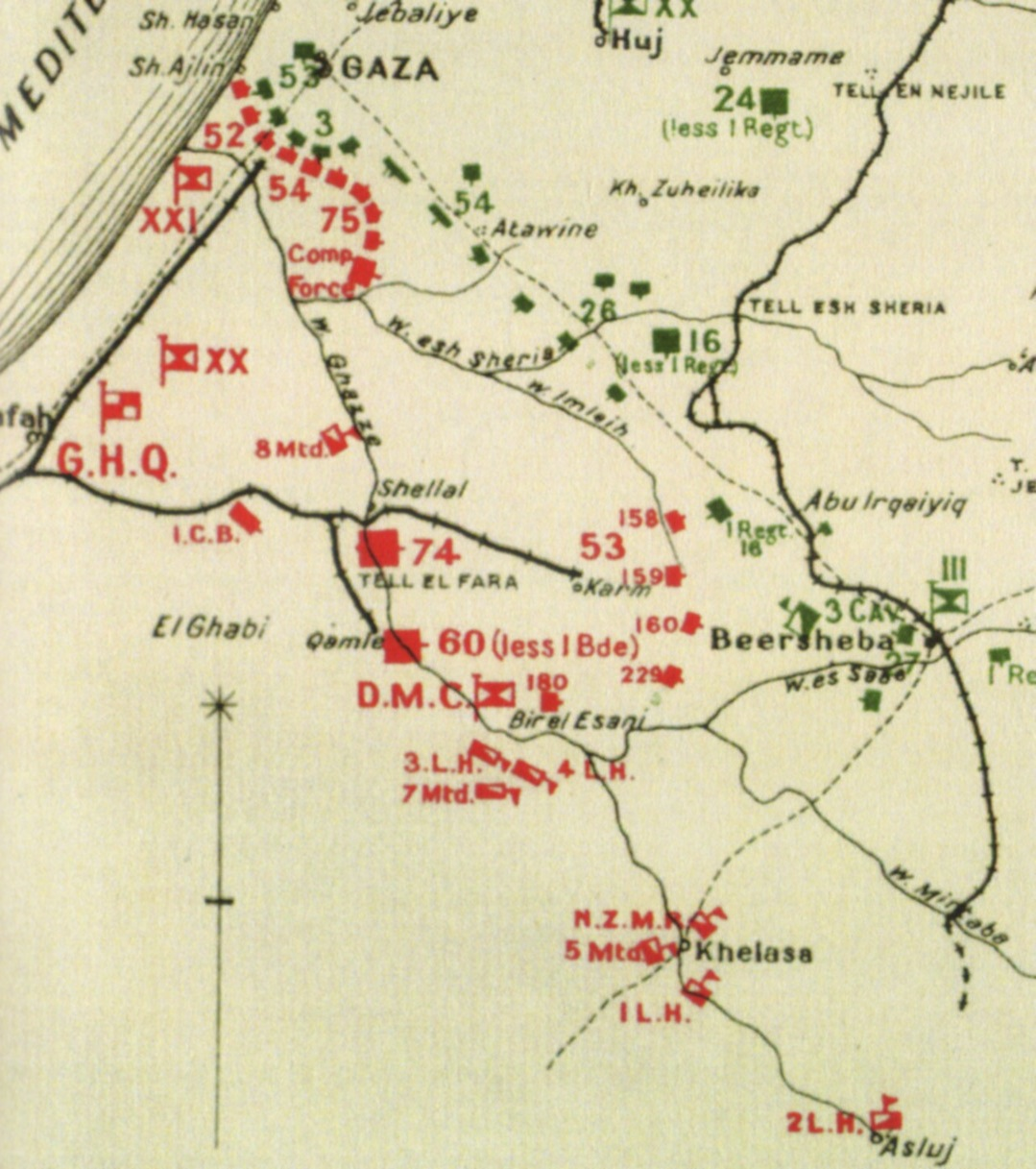 Detail of Sketch Map No. 1 showing deployments on 28 October 1918 along the Gaza to Beersheba line Other information Official history, published by the British Government